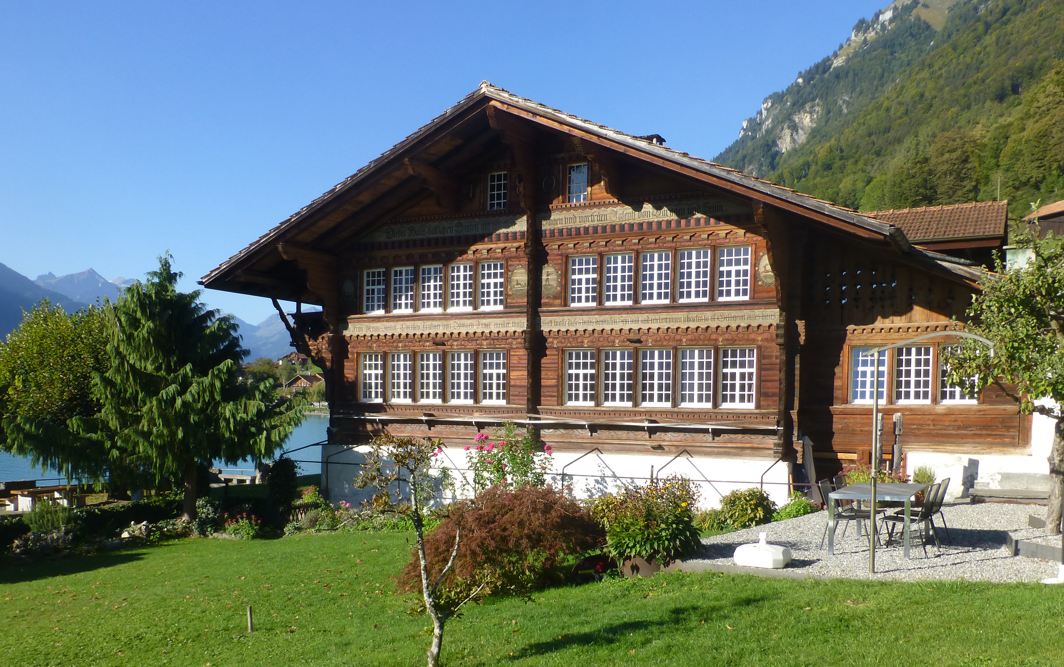 Bauernhaus